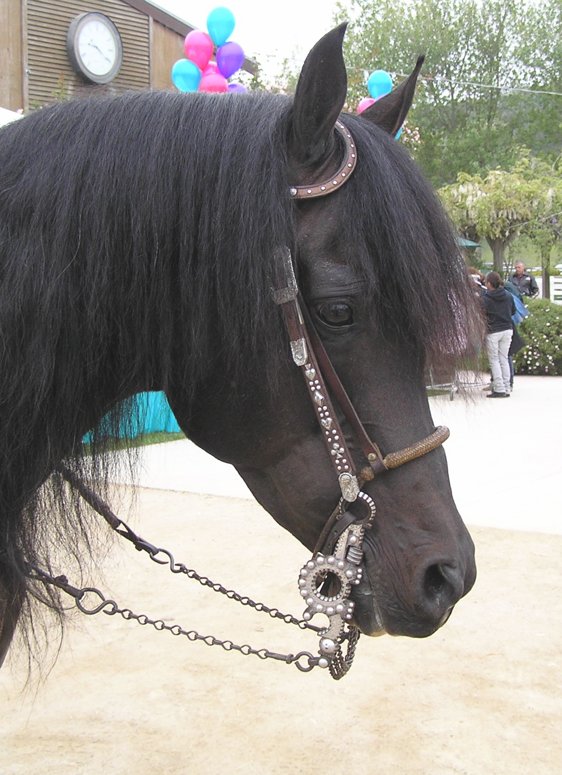 bay purebred Arabian stallion Maclintock V (correct spelling here)